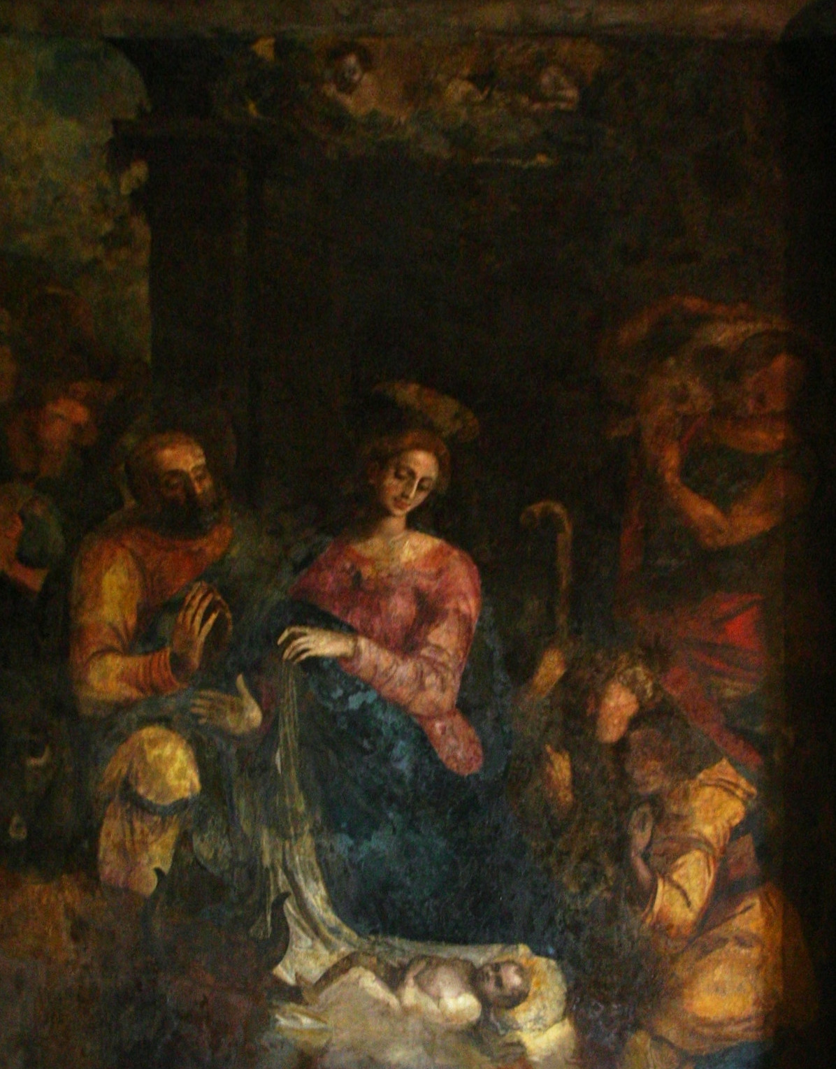 The Adoration of the Shepherds